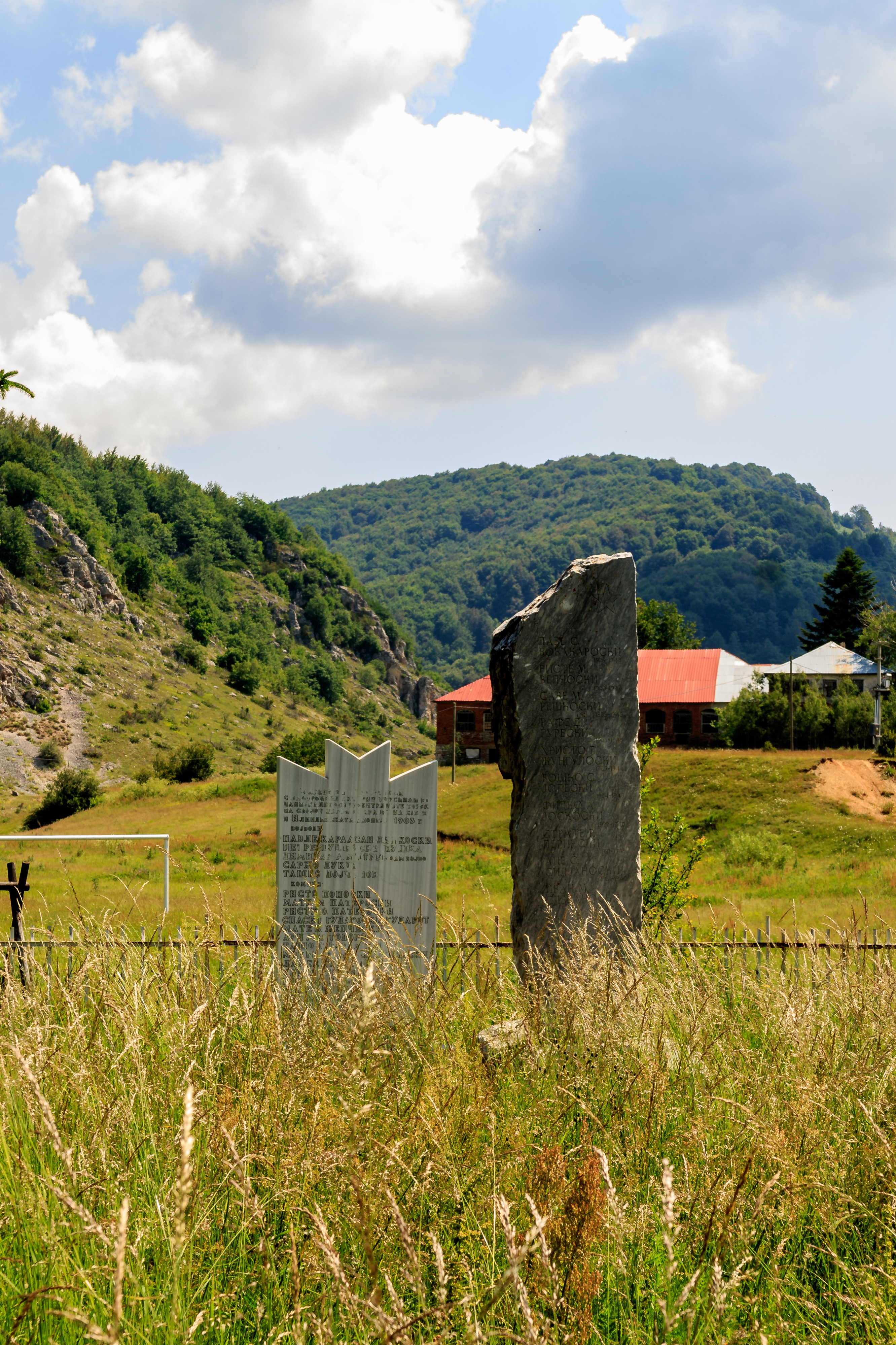 Monument in the village Lazaropole